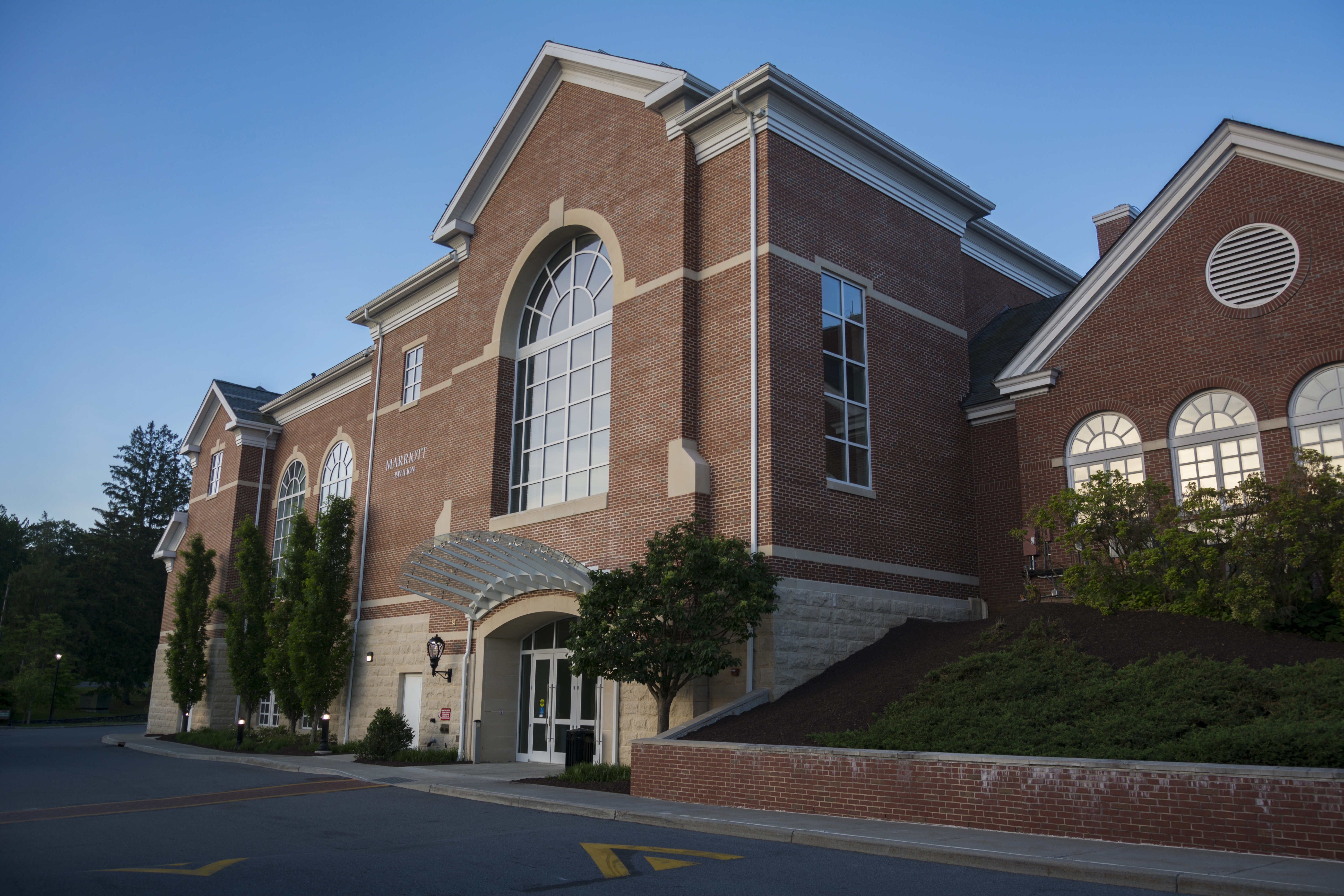 Part of the Culinary Institute of America's Hyde Park campus.